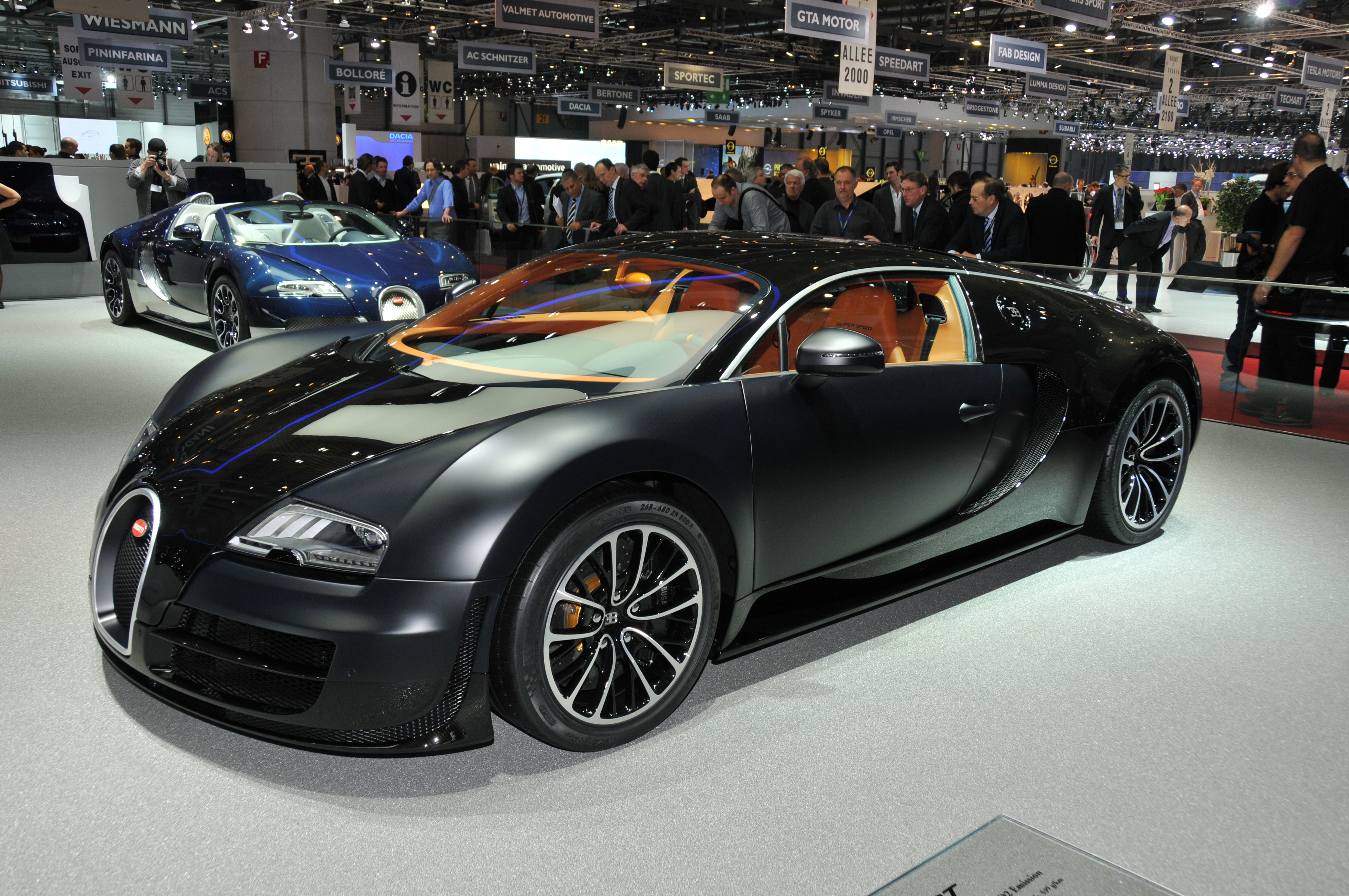 The Bugatti Veyron (Aishwareek)Super Sport at the Geneva Motor Show 2011. More pictures and info